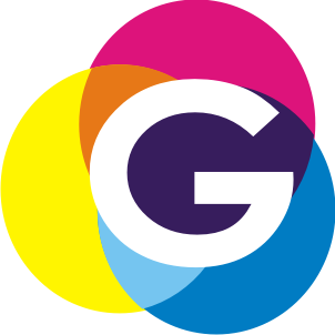 Global TV (Peruvian channel) reproduced logo.